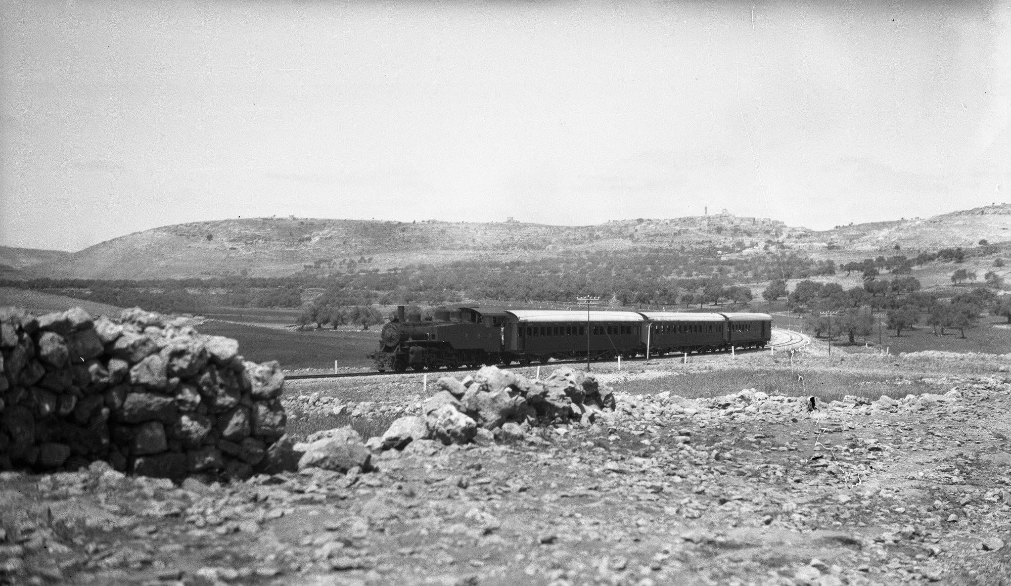 Malha, Jerusalem, 1934. The Palestinian Arab village al-Maliha is seen on the ridge, the villag's olive groves on the sloops and in valley. A train is travelling on the Jaffa-Jerusalem railway